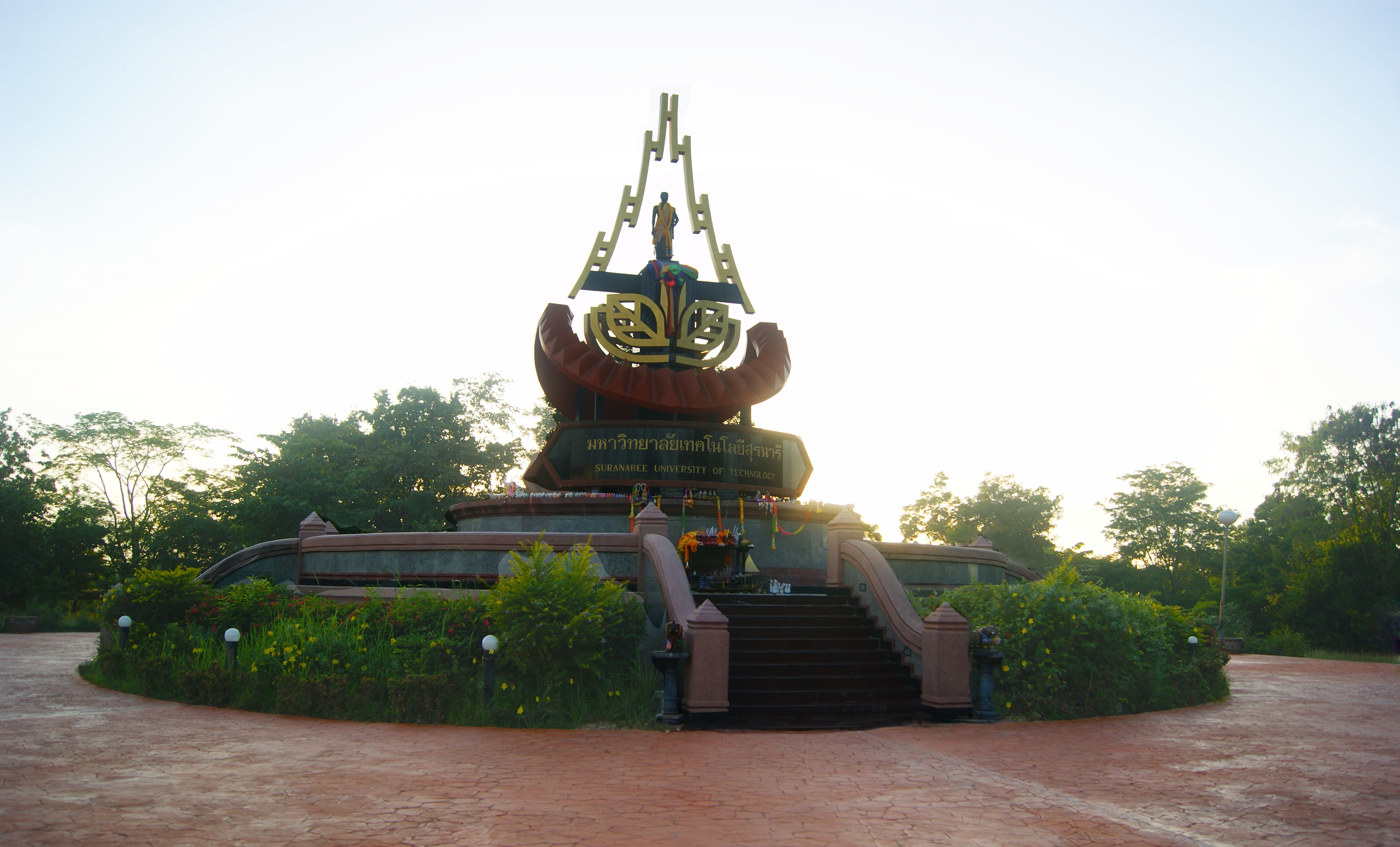 Laan Yaa